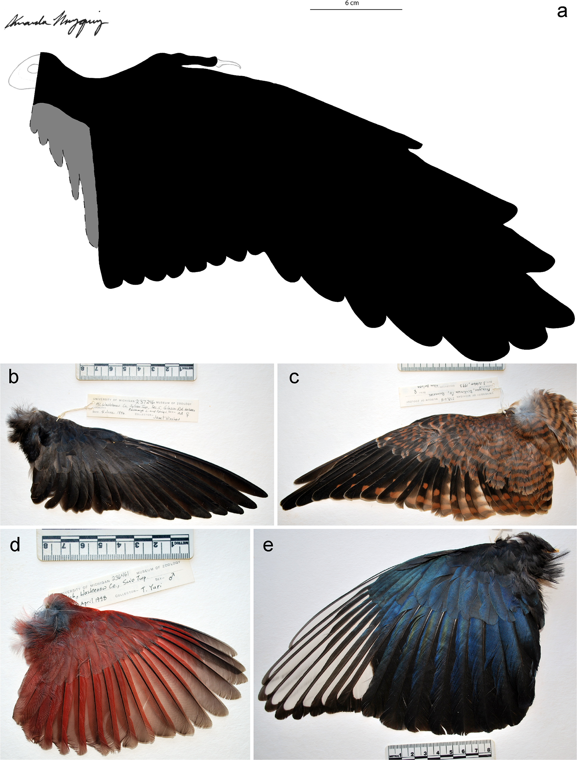 Comparison of the wing of Confuciusornis with the wings of modern birds. (A) Confuciusornis, reconstruction, dorsal view. Grey-shaded region indicates areas where tertials would be located (osteological reconstruction by A. Muzquiz). (B) Purple Martin (Progne subis), UMMZ 237246, dorsal view. (C) American Kestrel (Falco sparverius), UMMZ 233618, dorsal view. (D) Northern Cardinal (Cardinalis cardinalis), UMMZ 236461, dorsal view. (E) Black-billed Magpie (Pica hudsonia), UMMZ 235421, dorsal view.